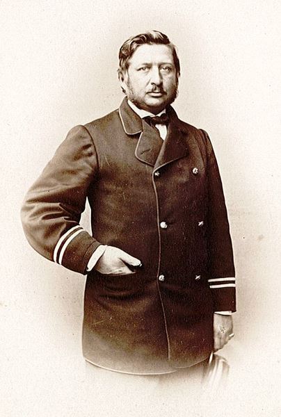 Carl Fredrik Wille (1830-1913), captain of vessel Vøringen on the Norwegian North-Atlantic Expedition from 1876 until 1878.